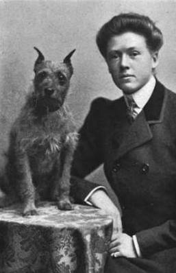 A young white woman in a tailored suit and necktie, her hair brushed away from her face and tied back, sits at a small table, next to a wire-haired dog.